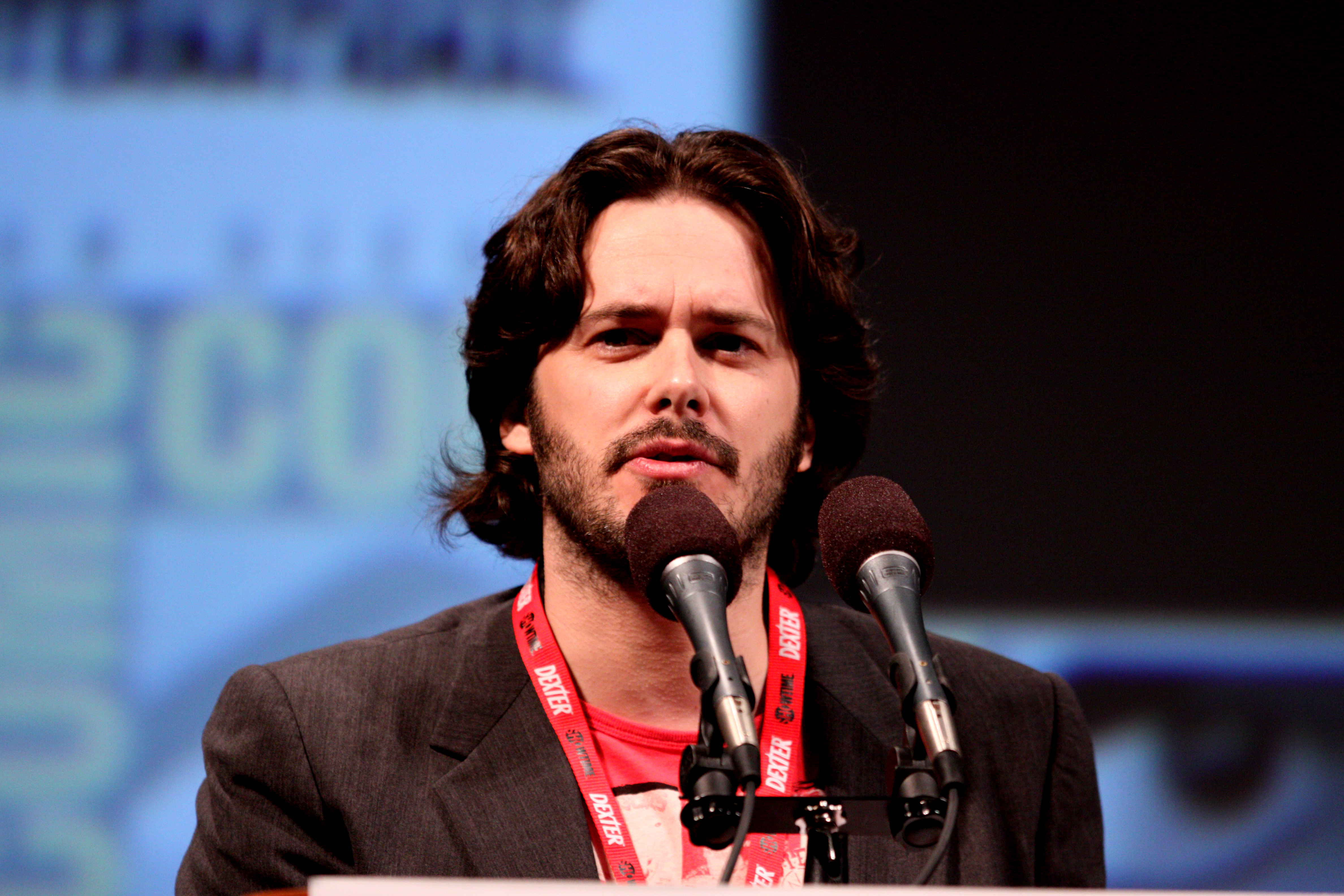 Director Edgar Wright on the Scott Pilgrim vs. the World panel at the 2010 San Diego Comic Con in San Diego, California.